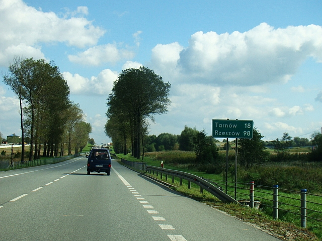 National road 4 (Poland)